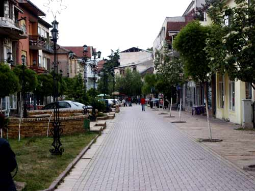 The center of Radovish, Republic of Macedonia